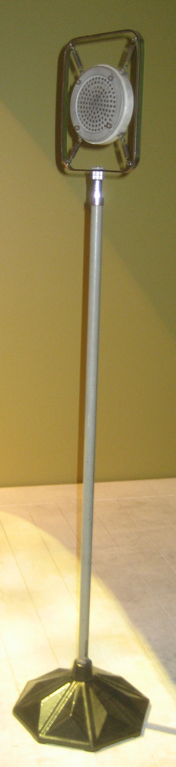 Louisiana State Museum, Baton Rouge, Louisiana. Broadcasting microphone from c. 1930.